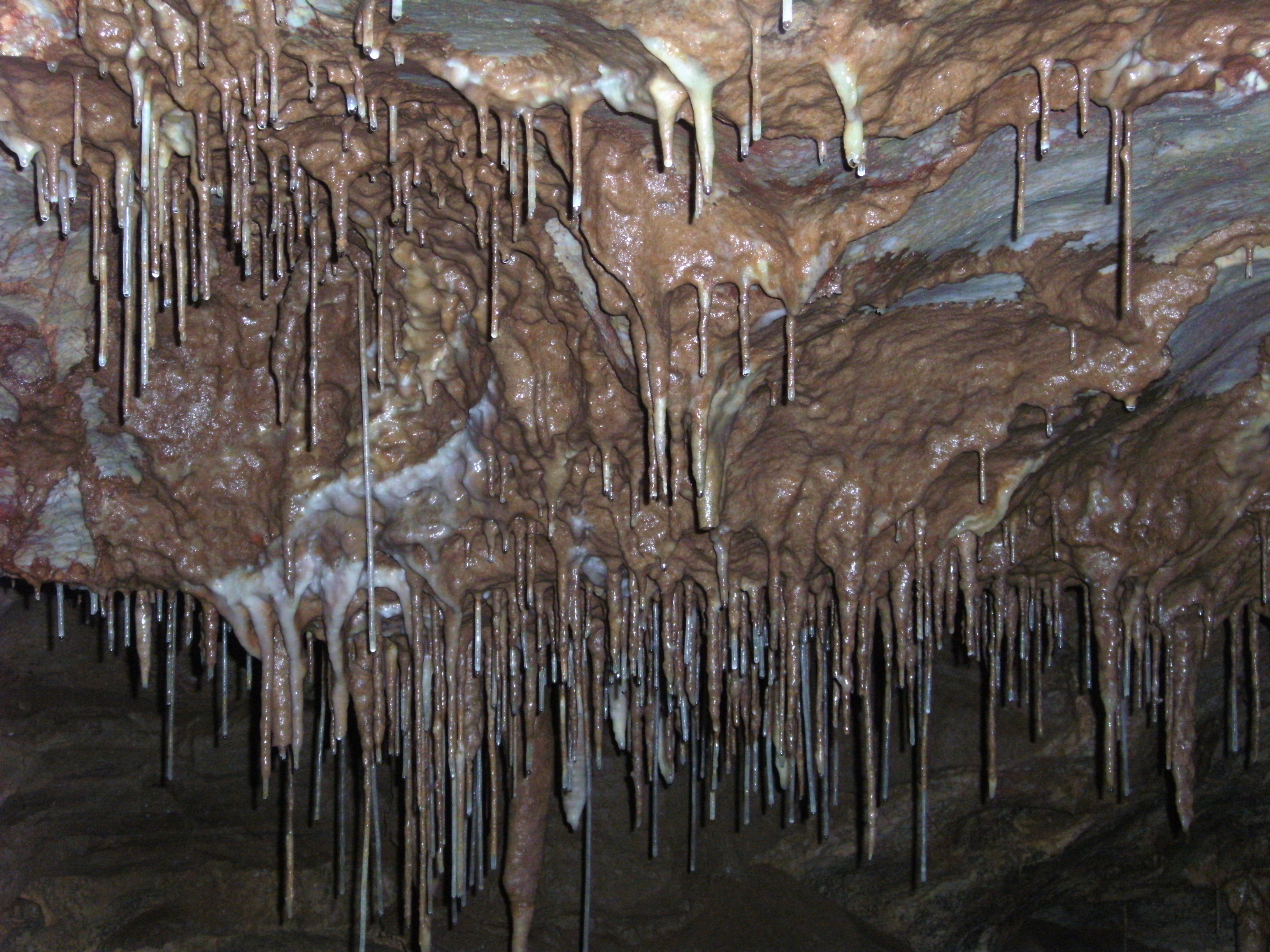 Marble Cave which is located in a village of Gadime municipality of Lipjan,about 20km south of capital Pristina.